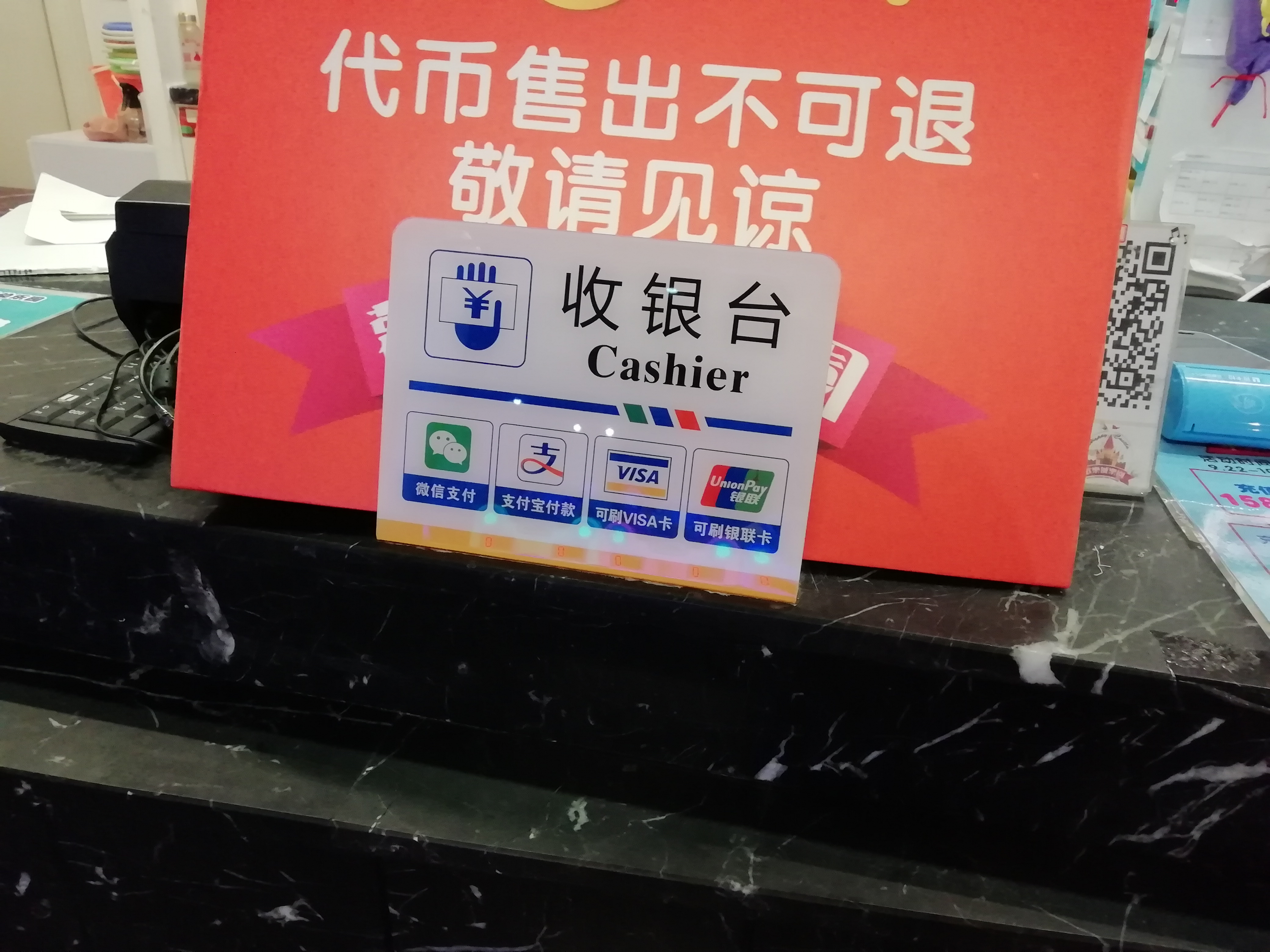 Signs of Wechat Pay and Alipay in the store in Suzhou. These payment systems are very popular in China. 中文（中国大陆）: 苏州市一家商店的支持微信支付、支付宝标识，这两种支付方式在中国大陆非常流行。